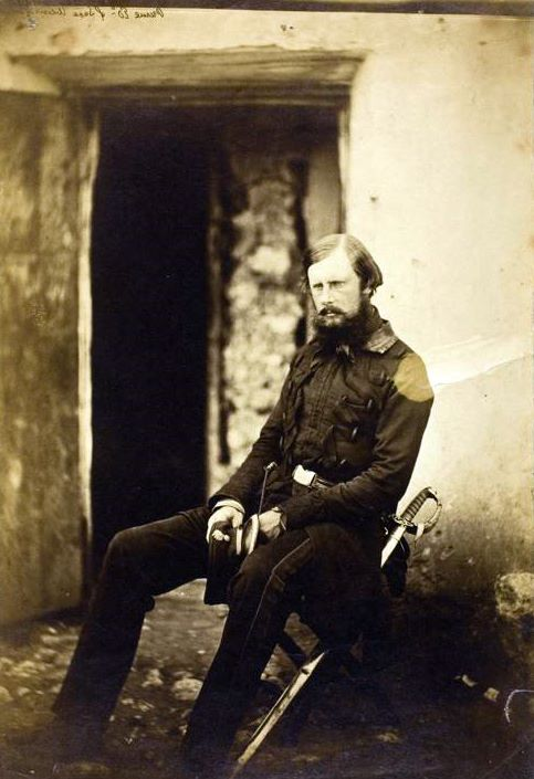 Prince Edward of Saxe Weimar, taken on the field, Crimea, 1855